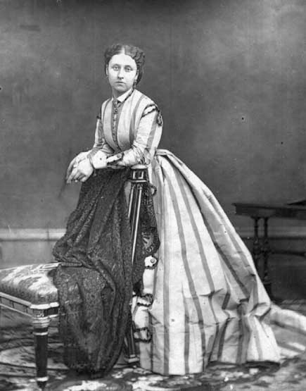 Princess Beatrice, c. 1860s